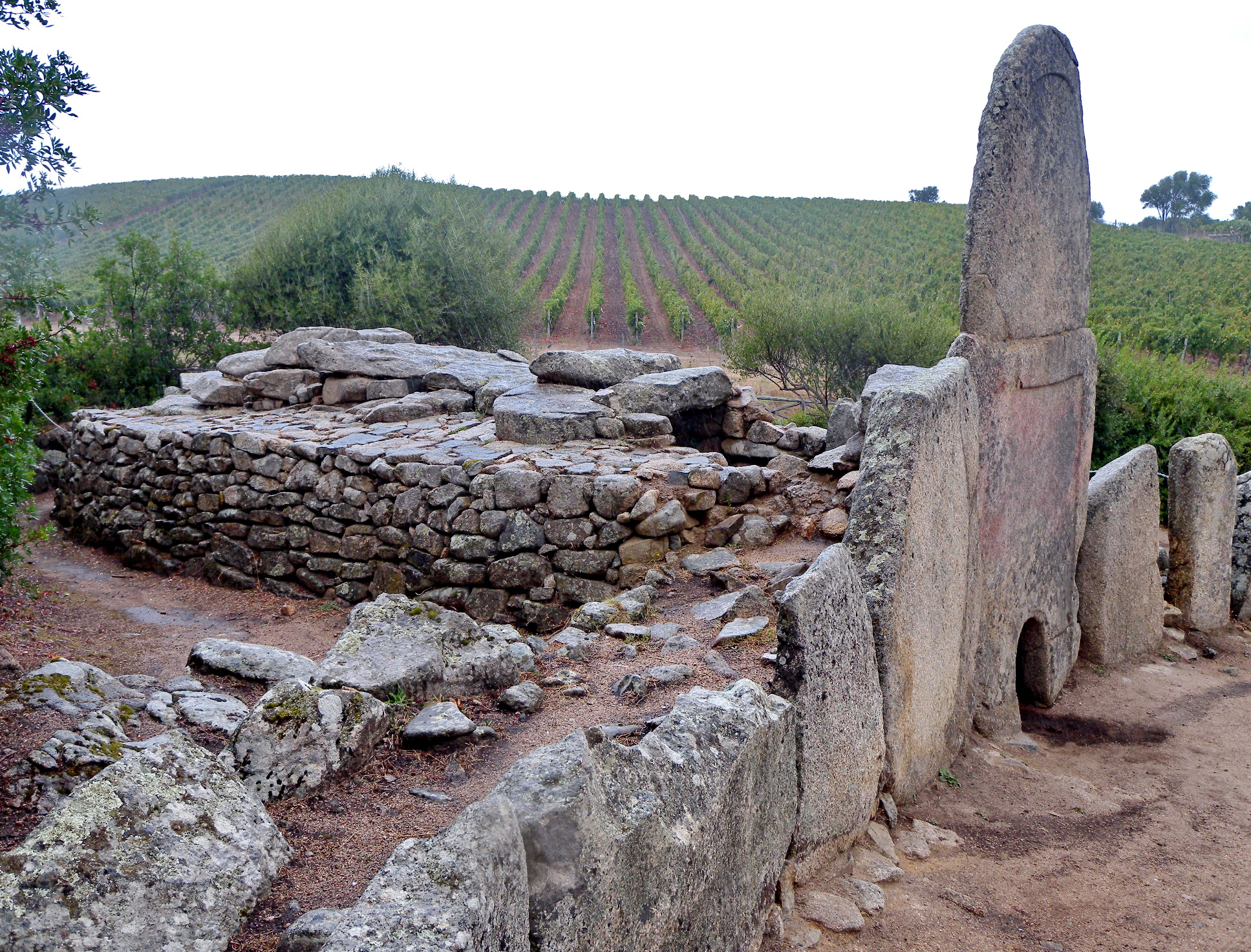 domus de janas in Arzachena-Coddu vechiu